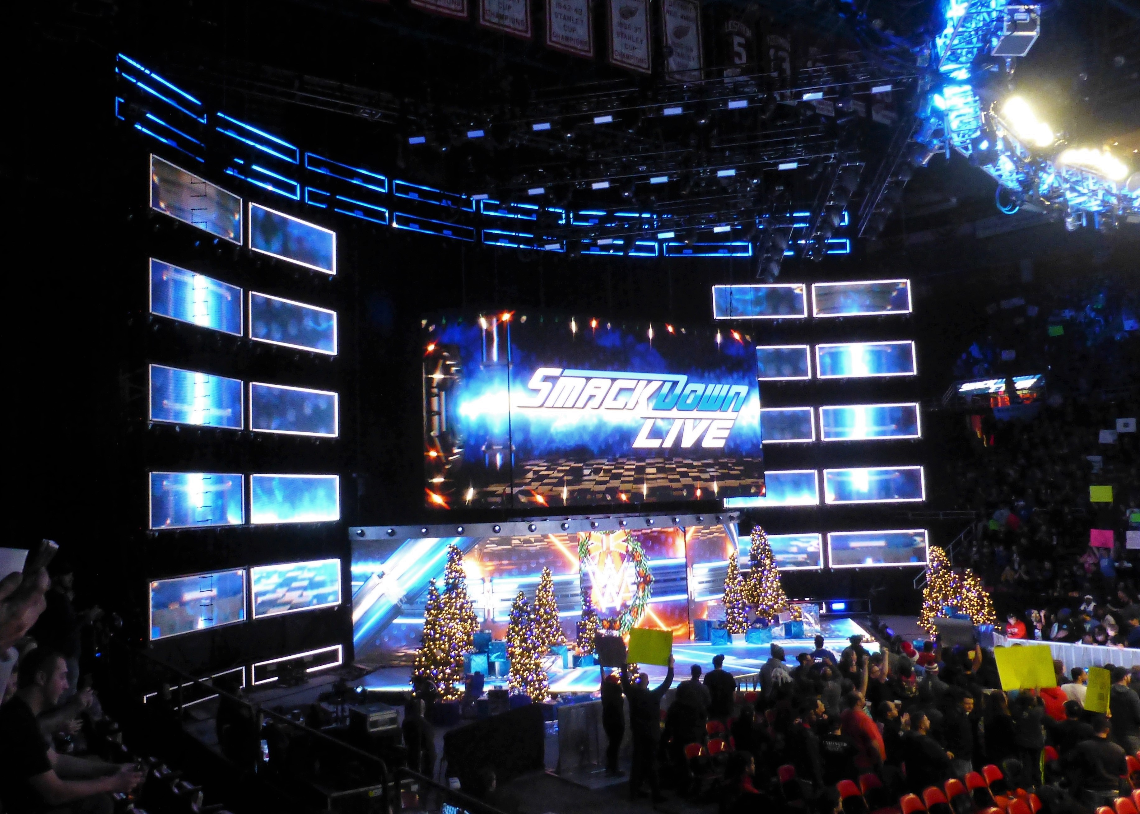 Who's ready for some WWE SmackDown?